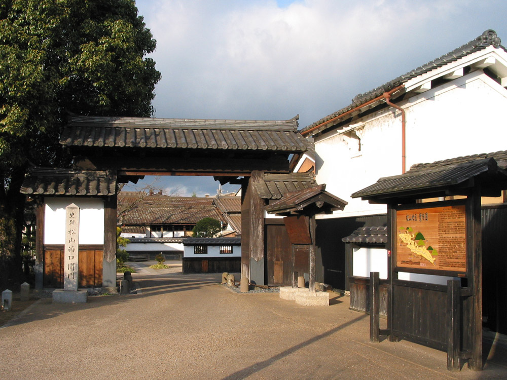 Matsuyama_Nishiguchi_SekimonImportant Preservation Districts for Groups of Historic BuildingsMatsuyama Ohuda-Ku Uda-Shi Nara-Pref., Japan. 史跡西口関門奈良県宇陀市大宇陀区松山重要伝統的建造物群保存地区